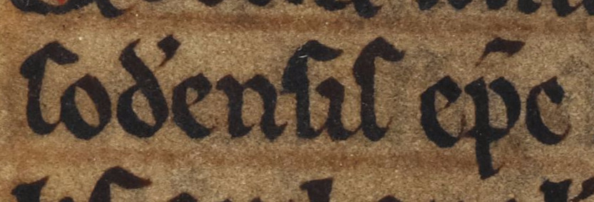 An excerpt from folio 46v of British Library MS Cotton Julius A VII (the Chronicle of Mann). The excerpt reads in Latin "Sodorensis episcopus", which translates into English as "Bishop of the Isles". The title is that of Simon, Bishop of the Isles.